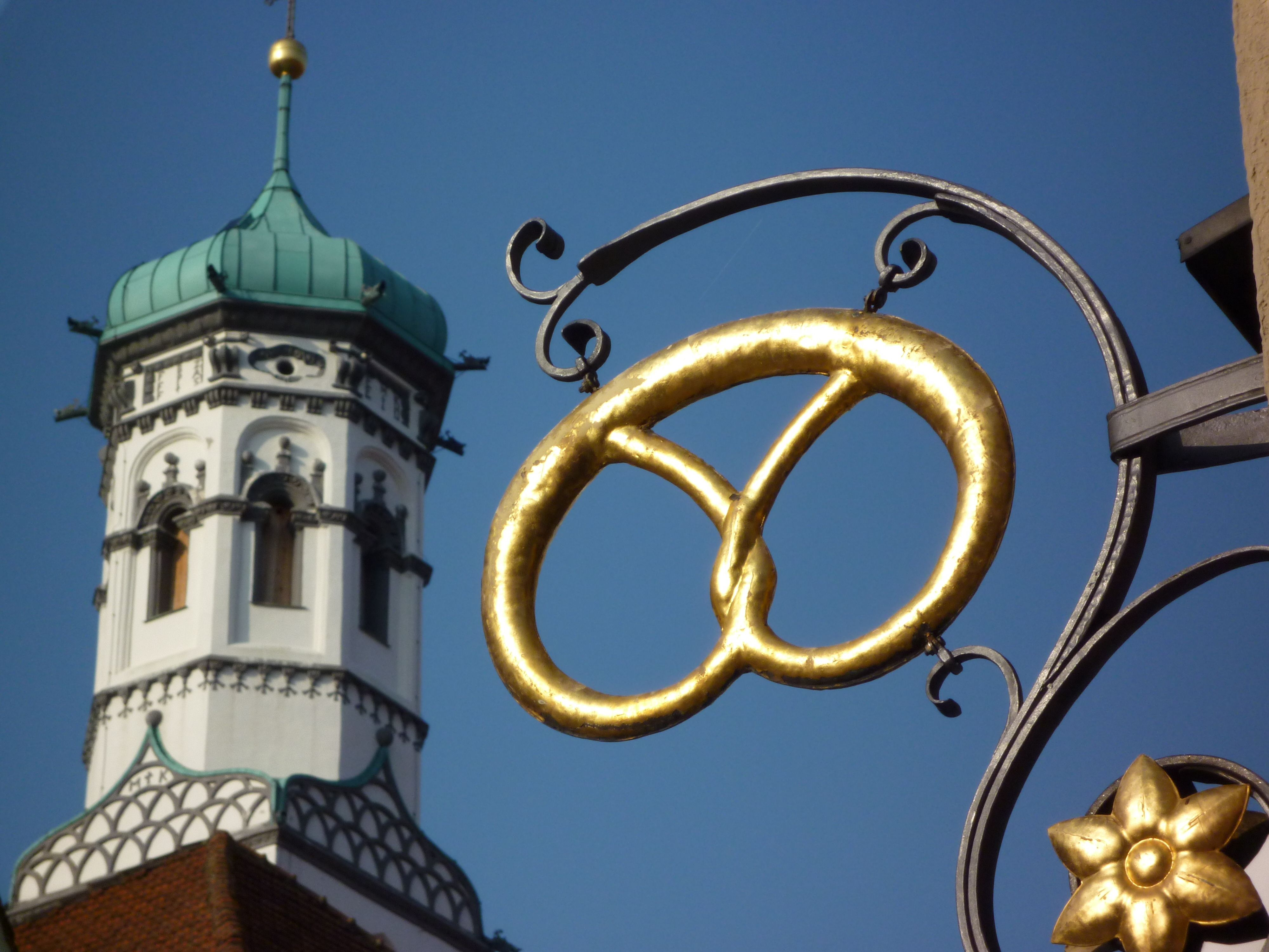 Memmingen - Pretzelsign and Tower of St. Martins-Church